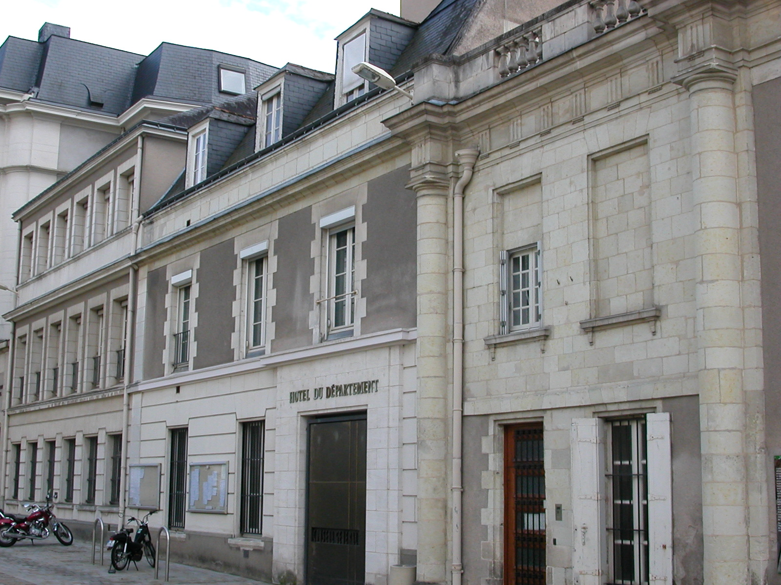 General council of Maine-et-Loire in Angers